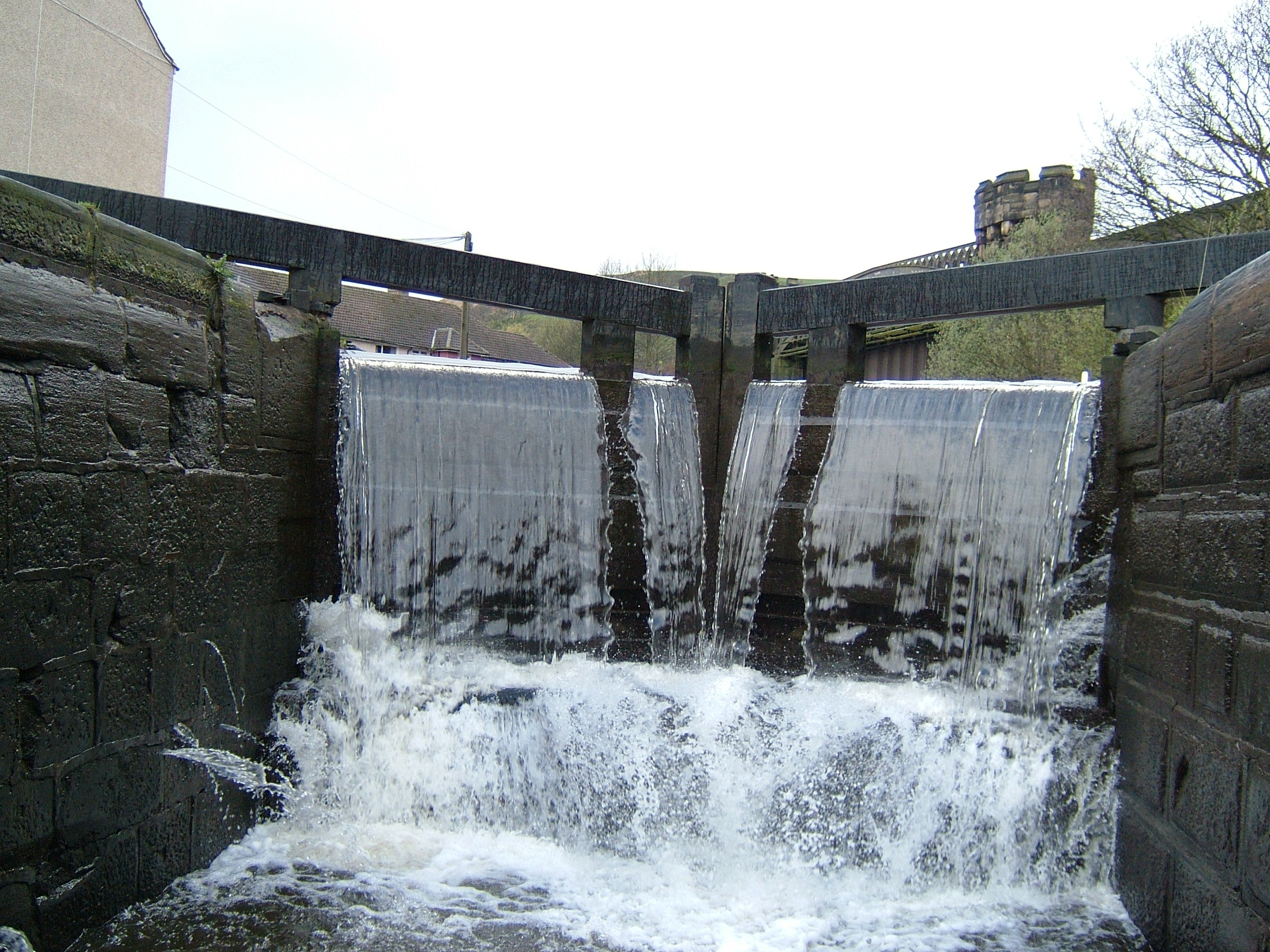 Lock on Rochdale Canal, northern England, with water going over the gates. Photograph taken by my mother. Photo she has released the photo under the GFDL.